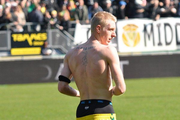 Hagenees in hart en nieren